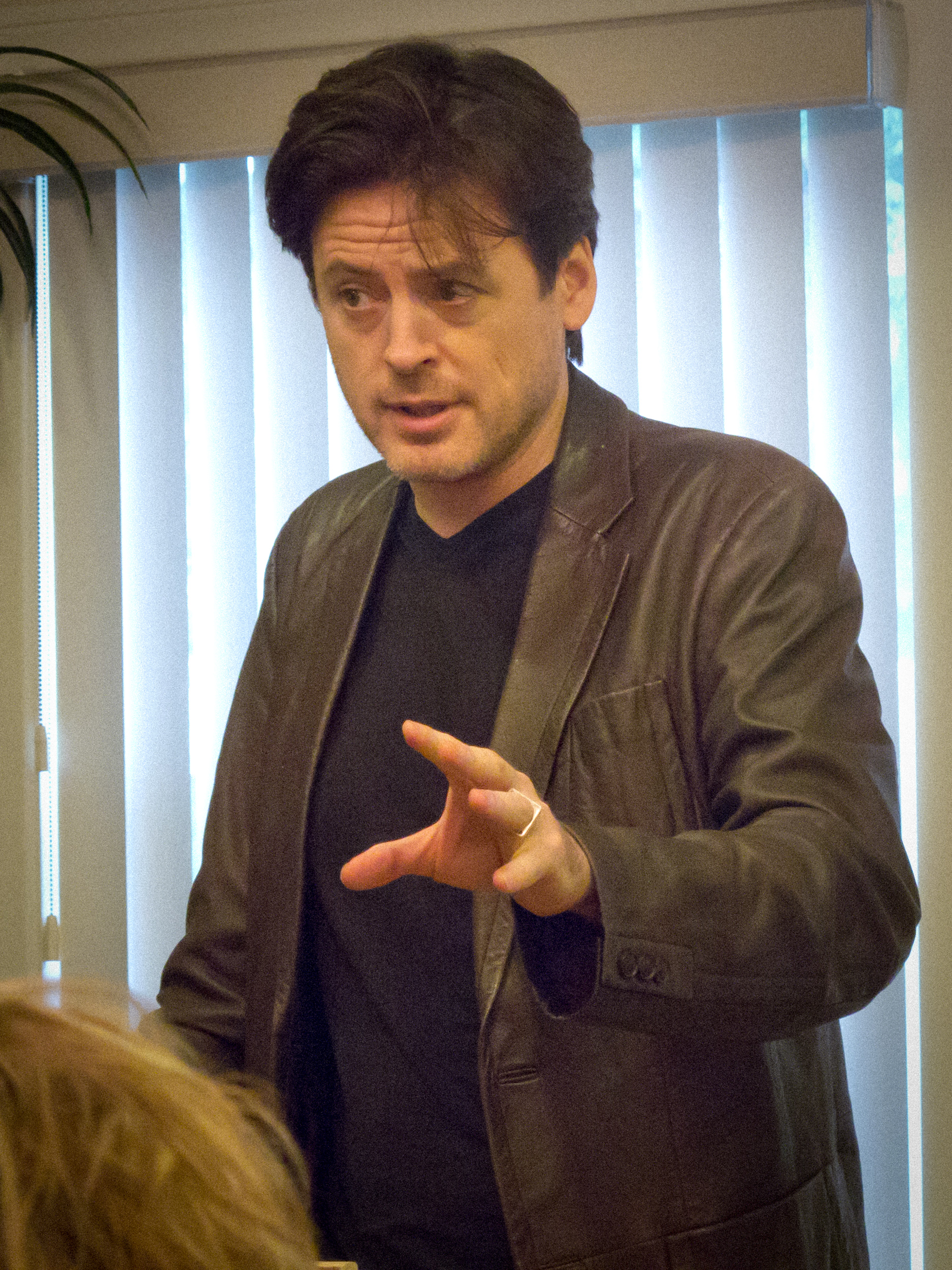 Comedian and political commentator John Fugelsang performs comedy at a Women Who Write event in 2011.